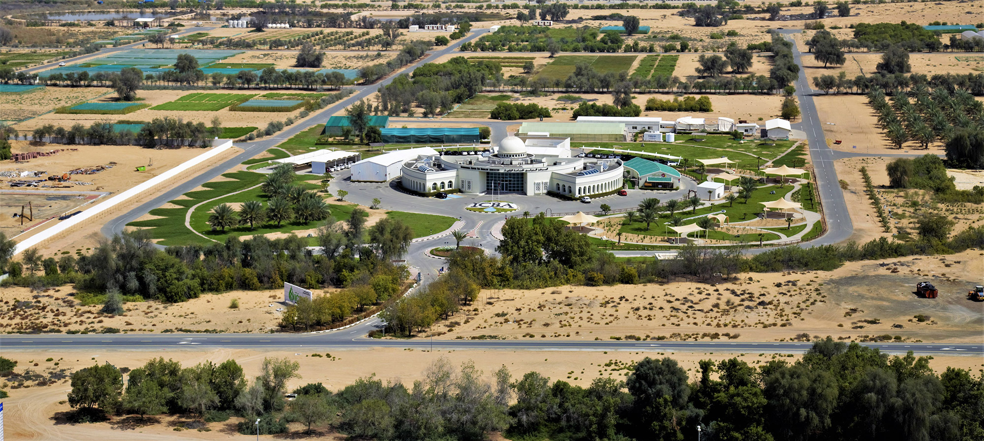 International Center for Biosaline Agriculture Headquarters in Dubai, United Arab Emirates